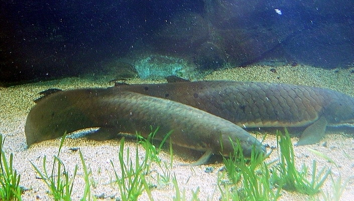 Queensland Lungfish (Neoceratodus forsteri) in Suma Aqualife Park